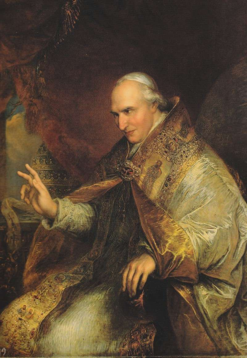 portrait of pope pius VIII